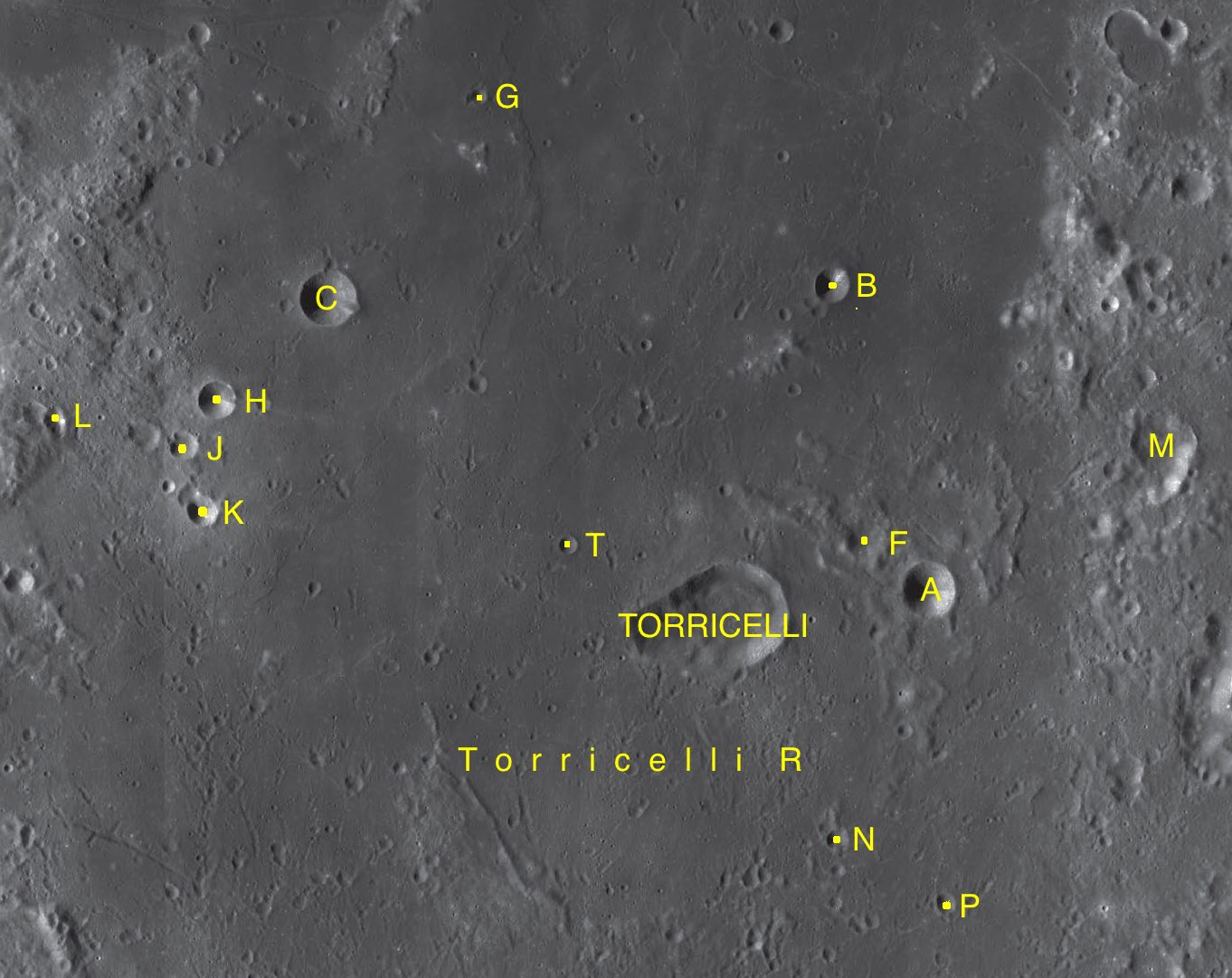 Parts of the charts LAC-78, LAC-79 used for the presentation